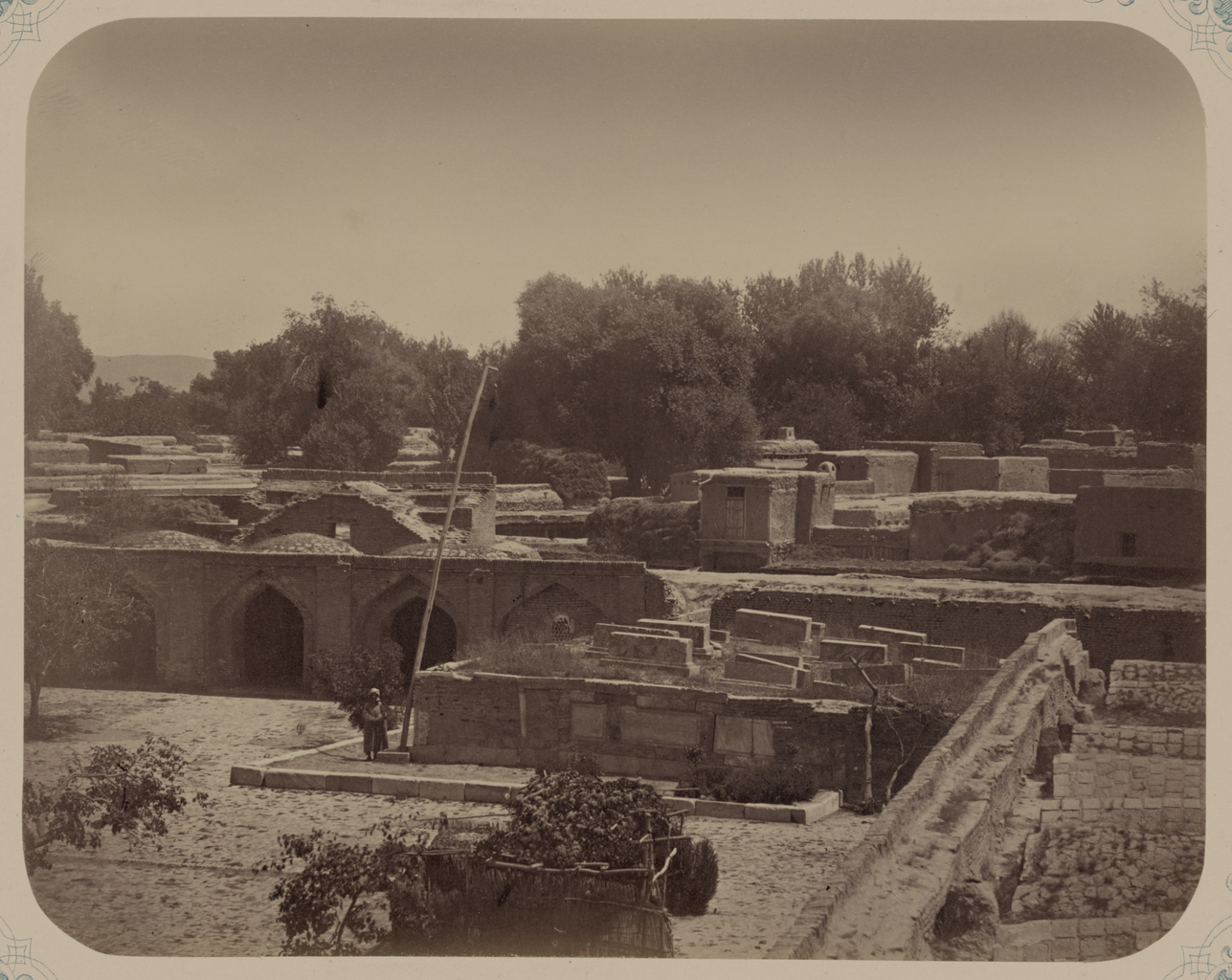 This photograph of the Madrasah of Shaybani Khan in Samarkand (Uzbekistan) is from the archeological part of Turkestan Album. The six-volume photographic survey was produced in 1871-72 under the patronage of General Konstantin P. von Kaufman, the first governor-general (1867-82) of Turkestan, as the Russian Empire’s Central Asian territories were called. The album devotes special attention to Samarkand’s Islamic architectural heritage. Muhammad Shaybani, subsequently known as Shaybani Khan (1451-1510), was the founder of the short-lived Shaybanid Uzbek dynasty. In 1500, and again in 1505, he captured Samarkand from the Timurid ruler Babur. Shaybani Khan was killed in 1510 at the battle of Merv with the Persian Shah Ismail I. His headless body was returned to Samarkand for burial. The madrasah (religious school) founded in his honor included a courtyard enclosed on three sides by a one-story cloister of cells (khujras) for scholars. A segment of the roof vaulting of these khujras is visible in the lower right of this view. In the center is a raised plot with stone sarcophagi in some disarray. On the left is the courtyard facade of an entrance structure with its own arcade. Nearby is the ruined mausoleum of Kuchkunji Khan, successor to Shaybani Khan. In the background is a warren of courtyards and houses of sun-dried (adobe) brick whose flat roofs are supported by wooden beams. Islamic architecture; Madrasahs; Photographic surveys; Sepulchral monuments; Tombs